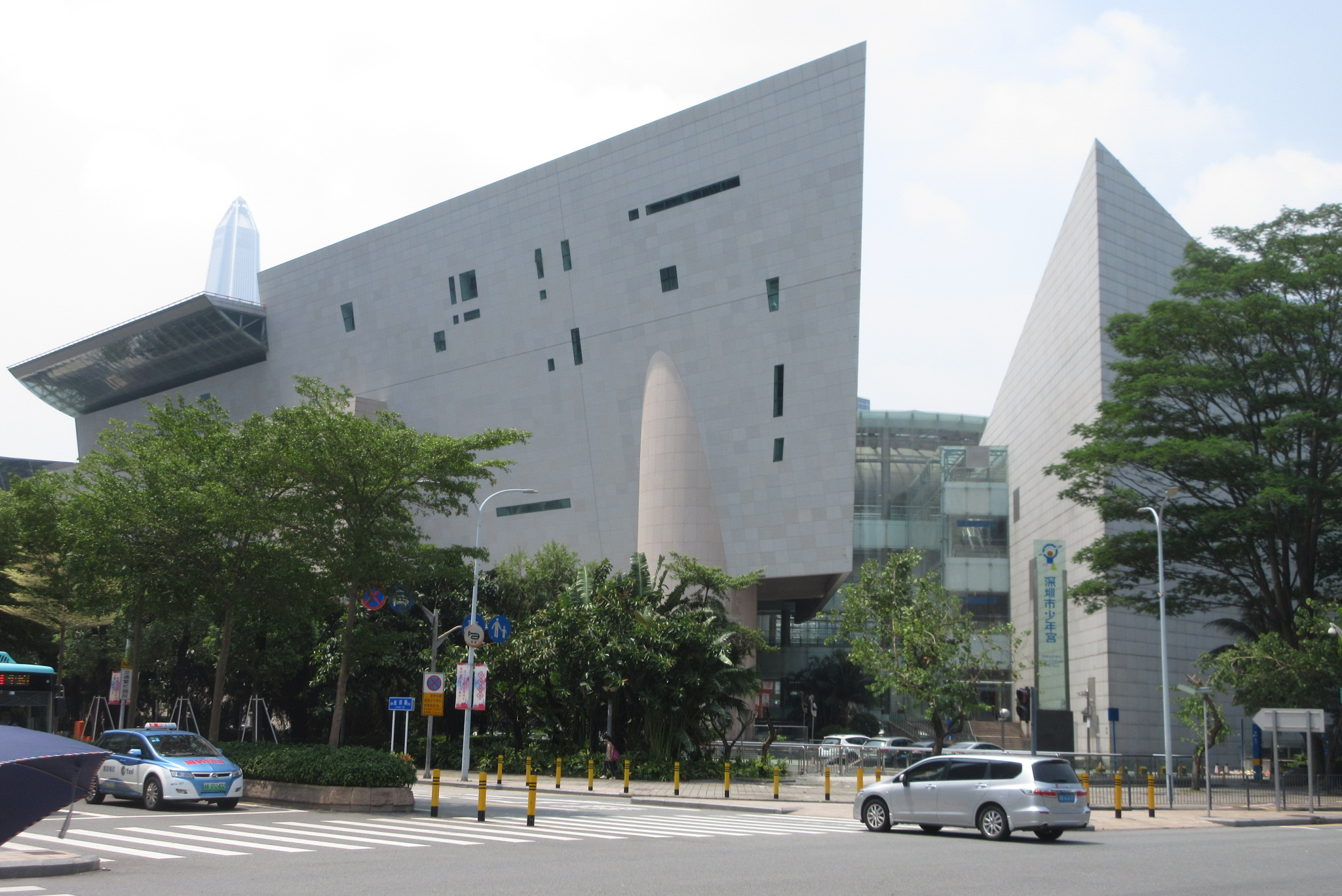 SZ 深圳 Shenzhen 福田 Futian 紅荔路 Hongli Road 金田路 Jintian Road Children's Palace facade in Sept 2017